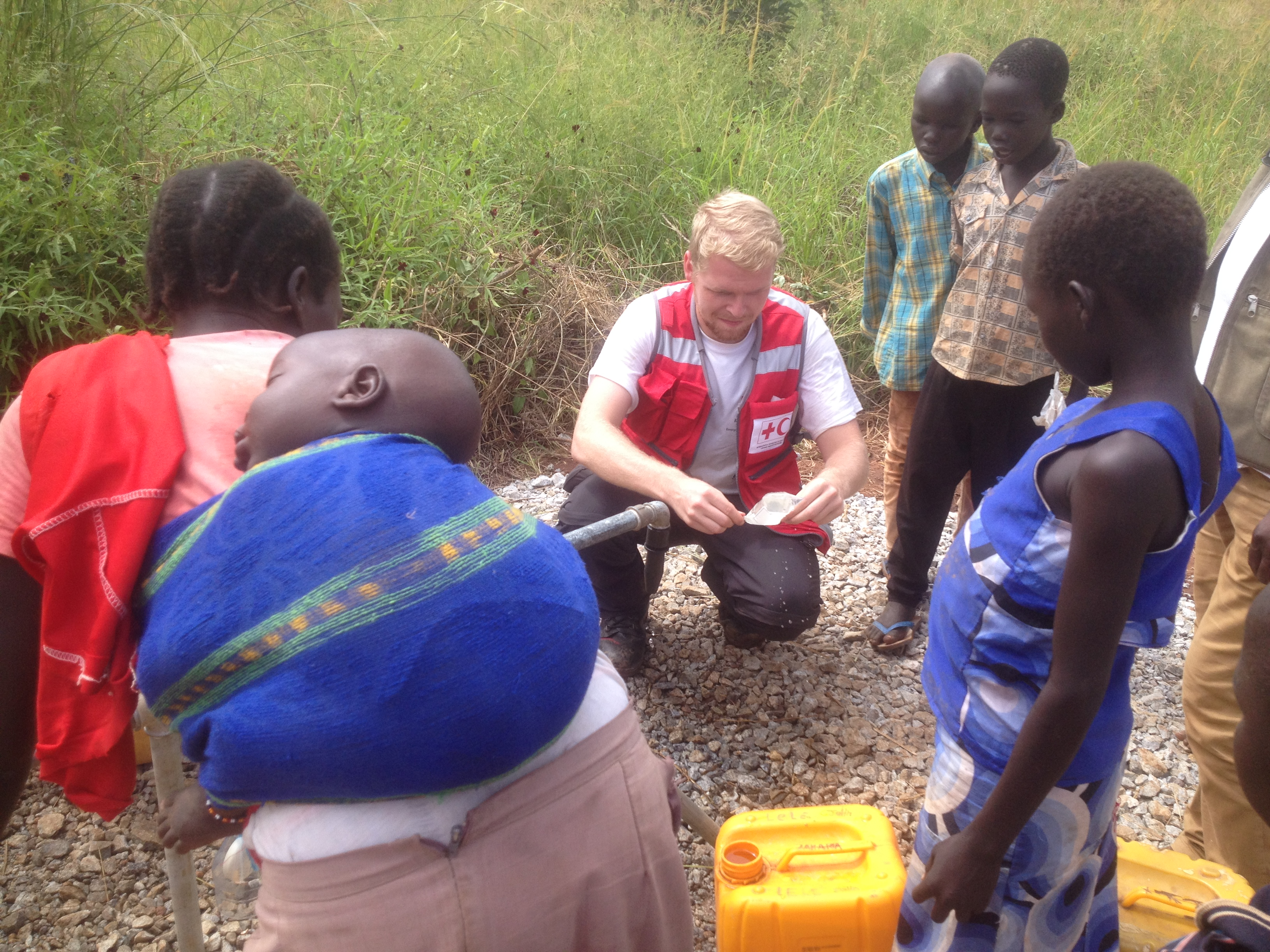 ERU-specialist Dominik Gunz takes a water sample from an distribution point.